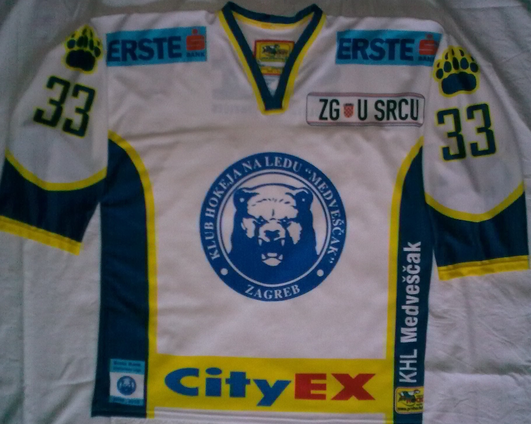 KHL Medveščak's away jersey for Season 2009-10